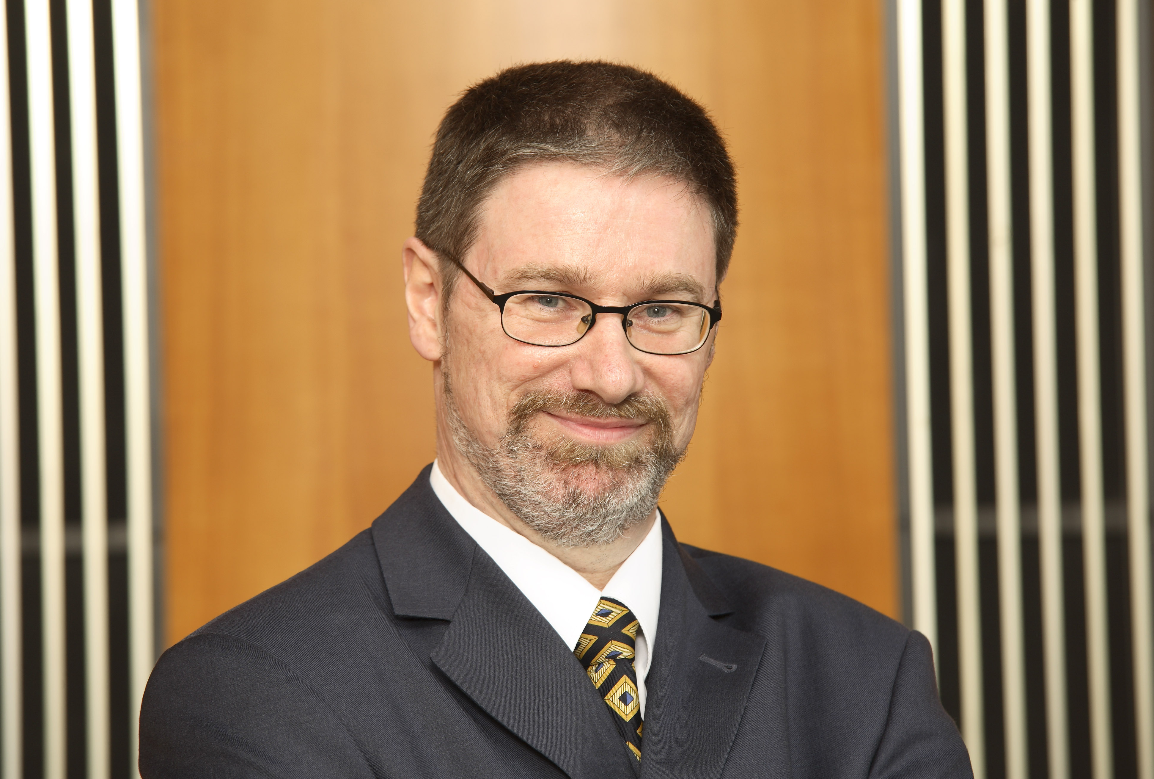 Lars-Hendrik Röller, CEO of the European School of Management and Technology, a private business school located in Berlin, Germany.